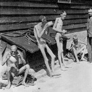 Survivors of the Mauthausen-Gusen concentration camp shortly after their liberation.